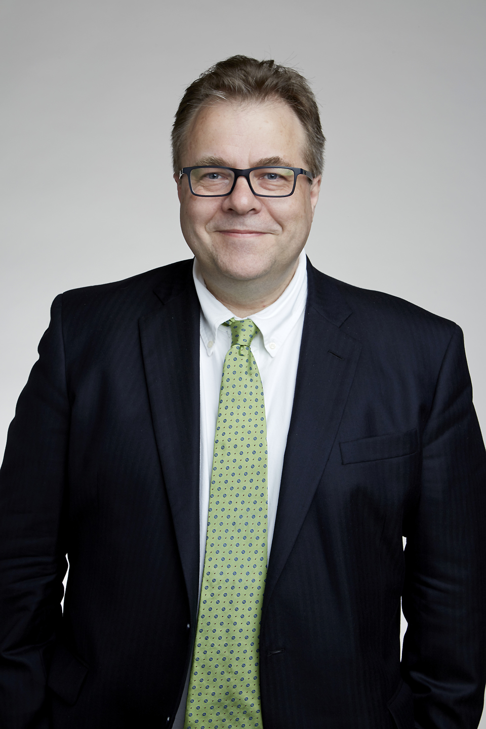 Mark Andrew Lemmon FRS, an English-born biochemist, is the David A. Sackler Professor of Pharmacology at Yale University where he co-directs the Cancer Biology Institute with Joseph Schlessinger. Attribution: The Royal Society